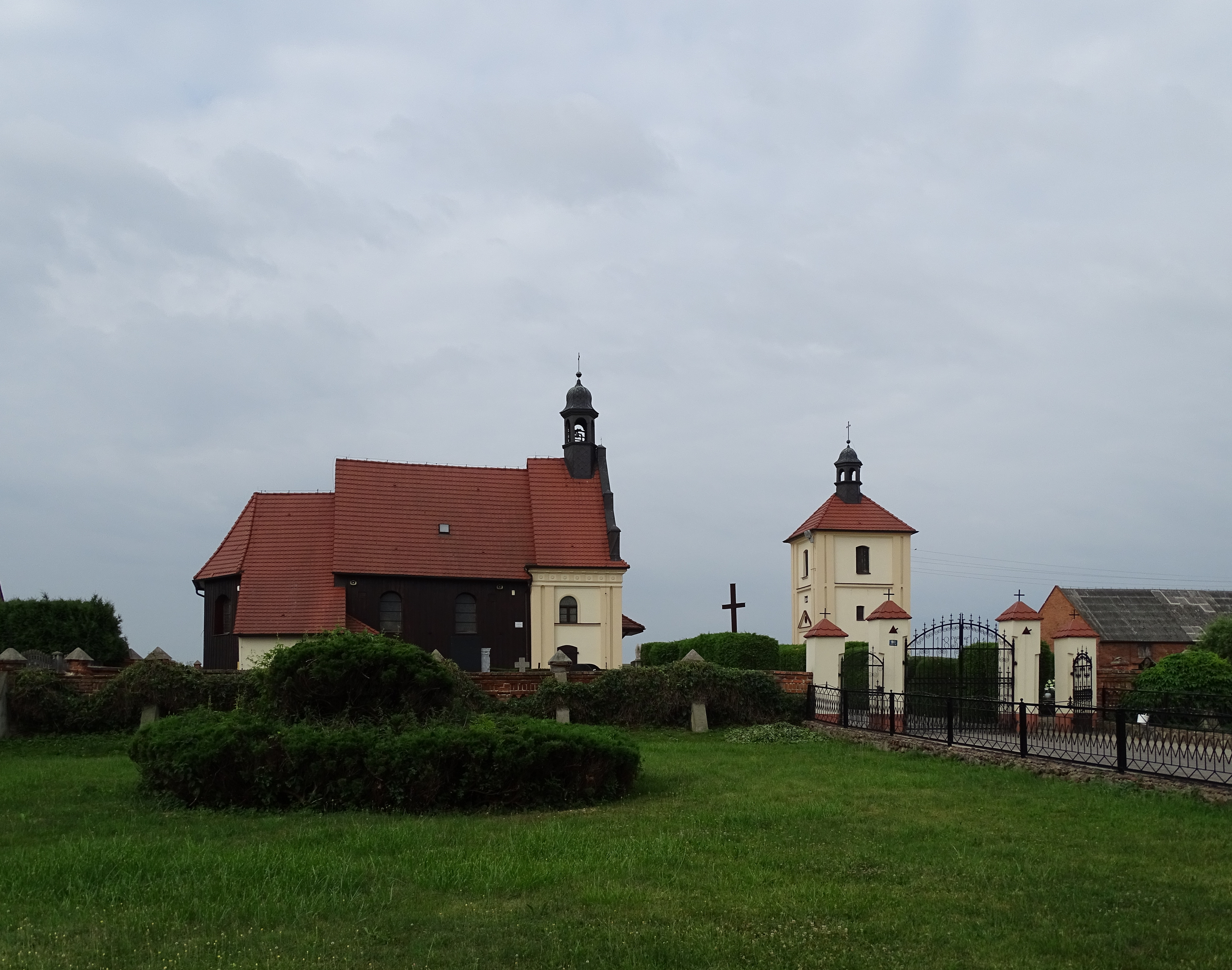 Sobiałkowo, Rawicz county, Poland. Parish church of Saint Jacob from the second half of the XVII century.